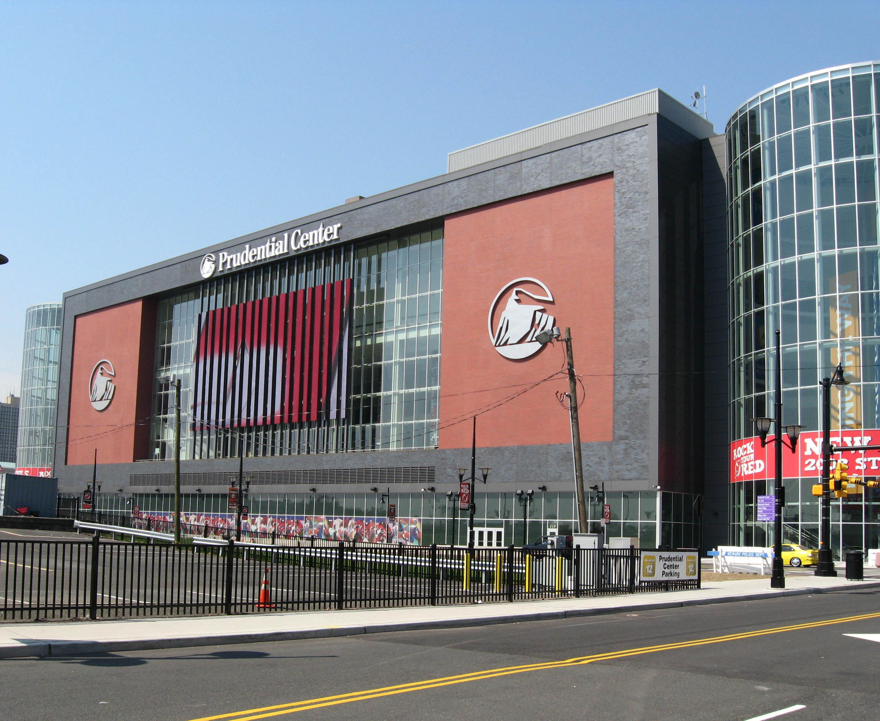 Looking southwest across Edison Place at Prudential Center, 105 Mulberry Street, on a mostly sunny noon in springtime.